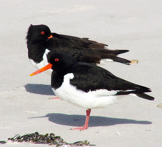 Eurasian Oystercatcher, Heligoland Düne